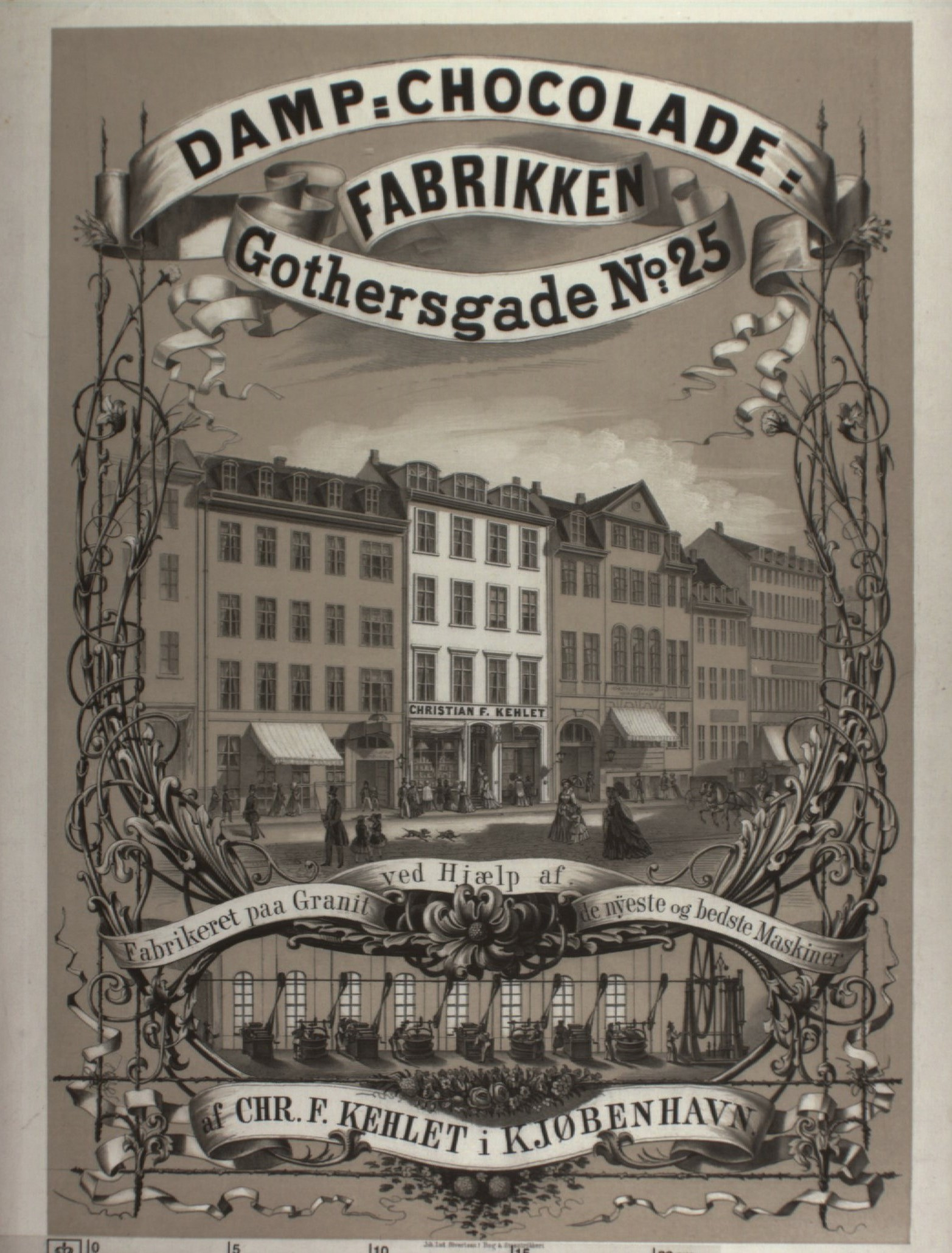 Damp-Chokolade-Fabrikken Gothersgade 25 in Copenhagen, Denmark